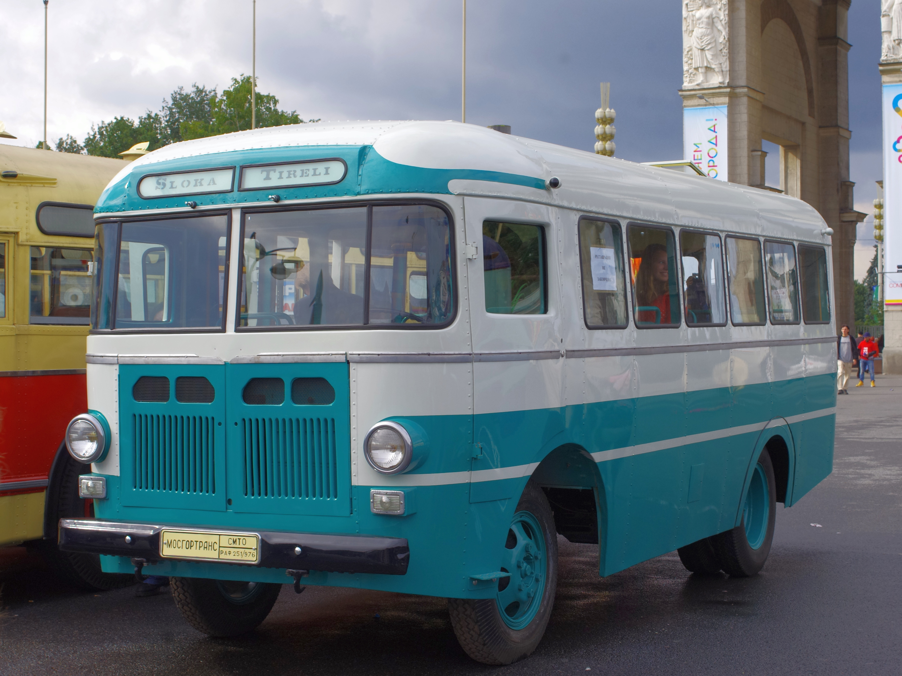 Moscow museum bus RAF 251